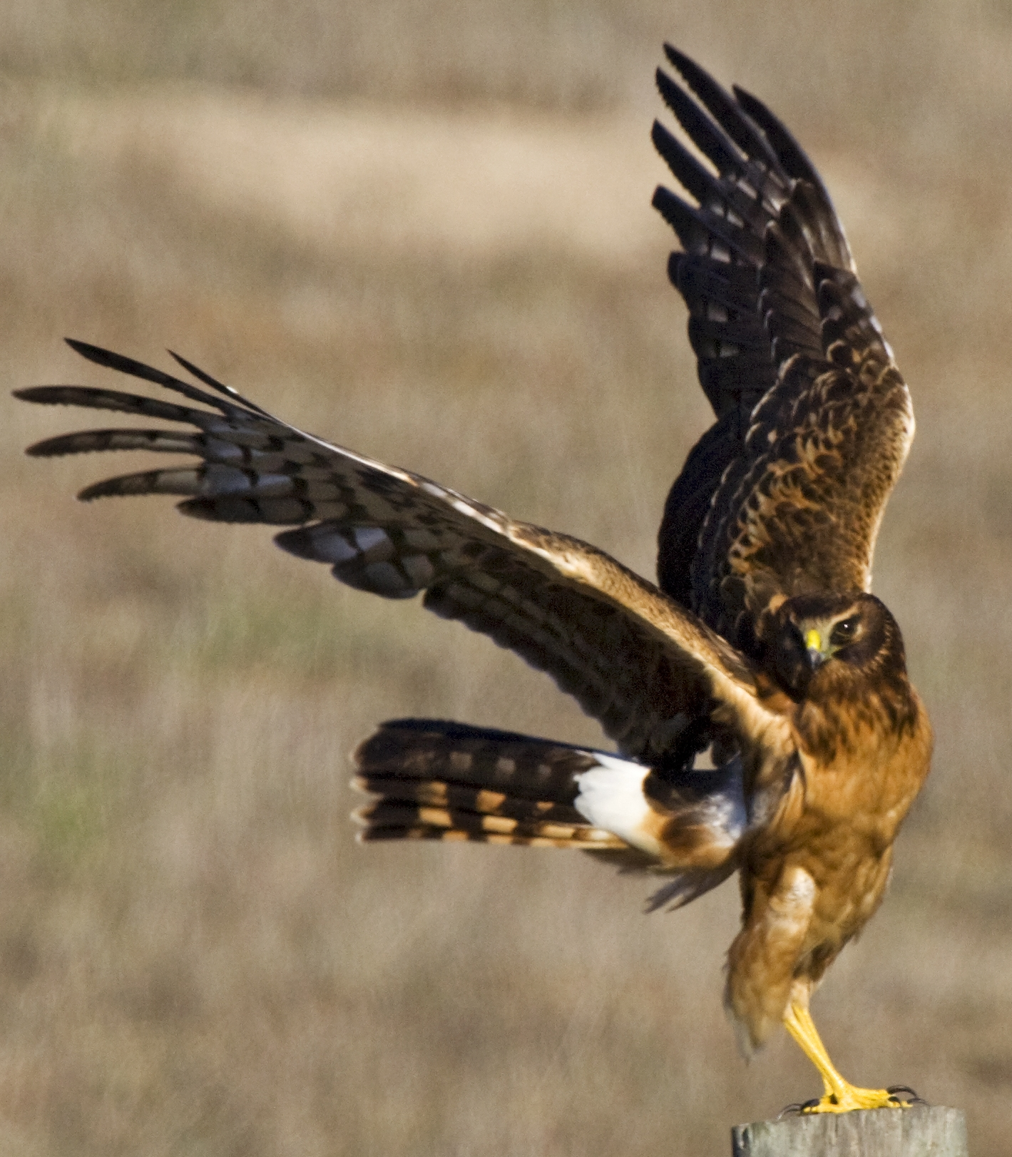 Juvenile Northern Harrier (Circus hudsonius), taken at Morro Bay, California.